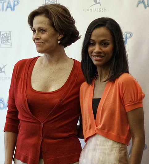 Sigourney weaver and Zoe Saldana